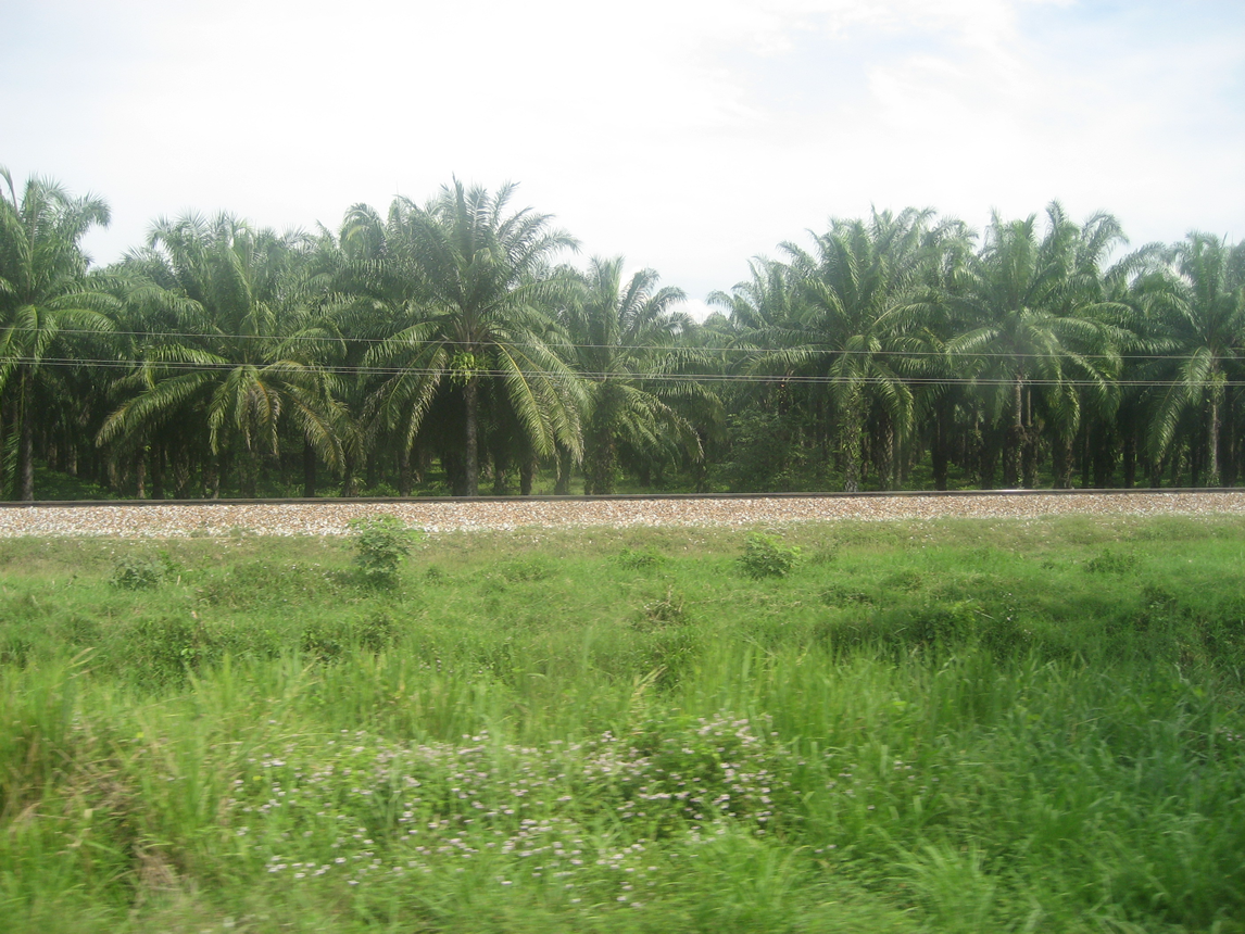 Image of oil palm plantation in Magdalena, Colombia